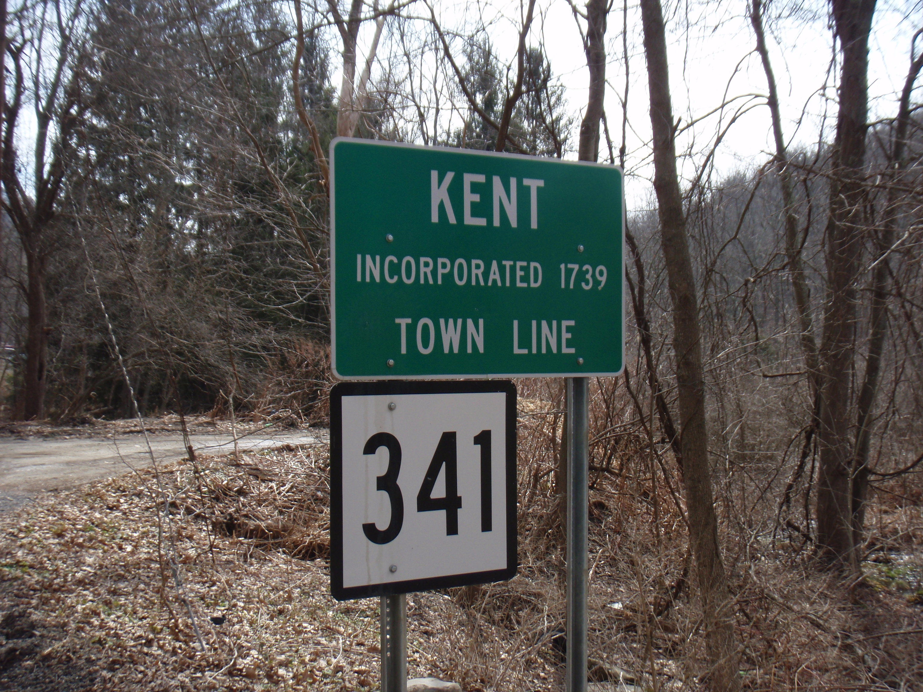 Town limit sign of Kent, Connecticut, USA